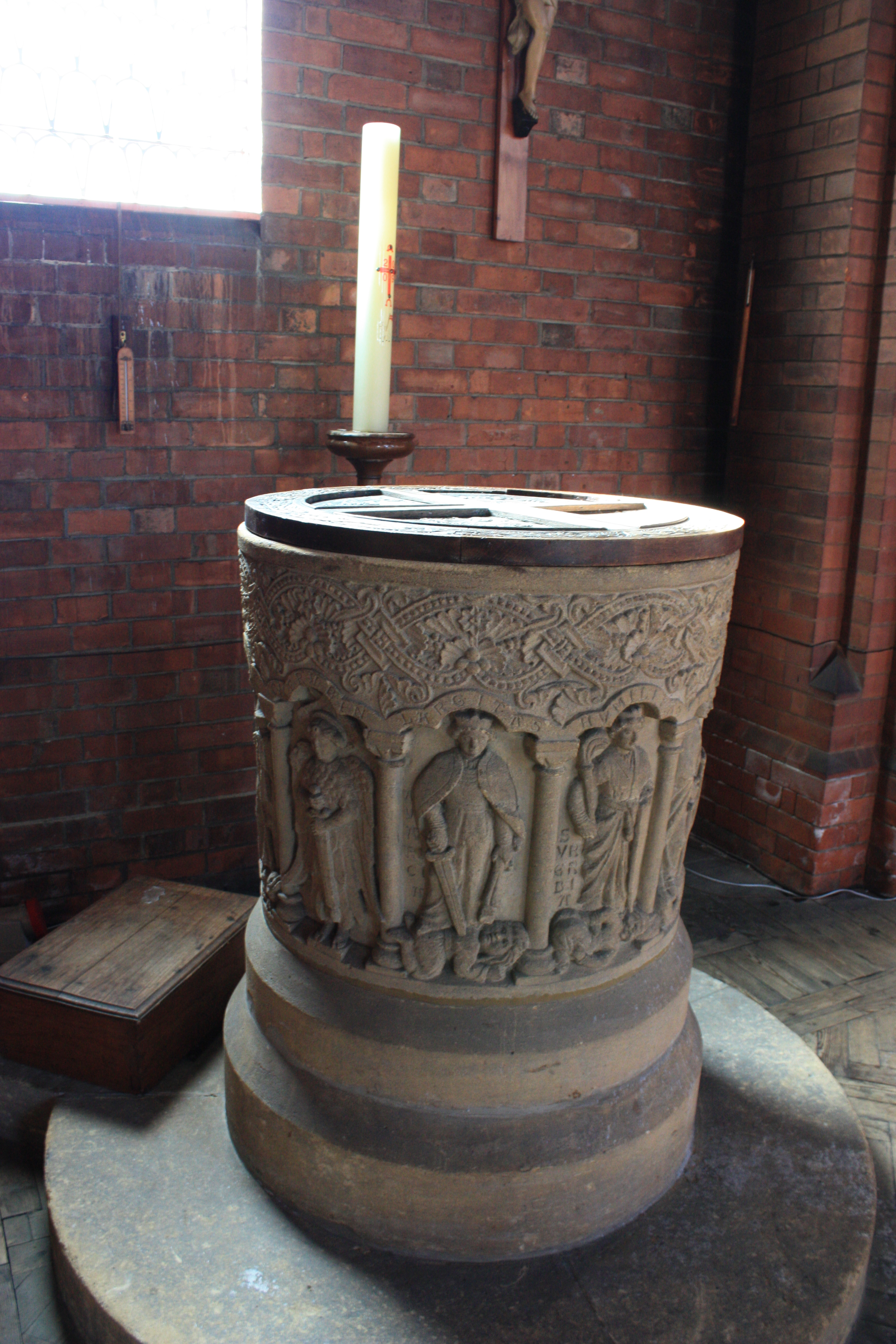 St Augustine, Swindon - the font